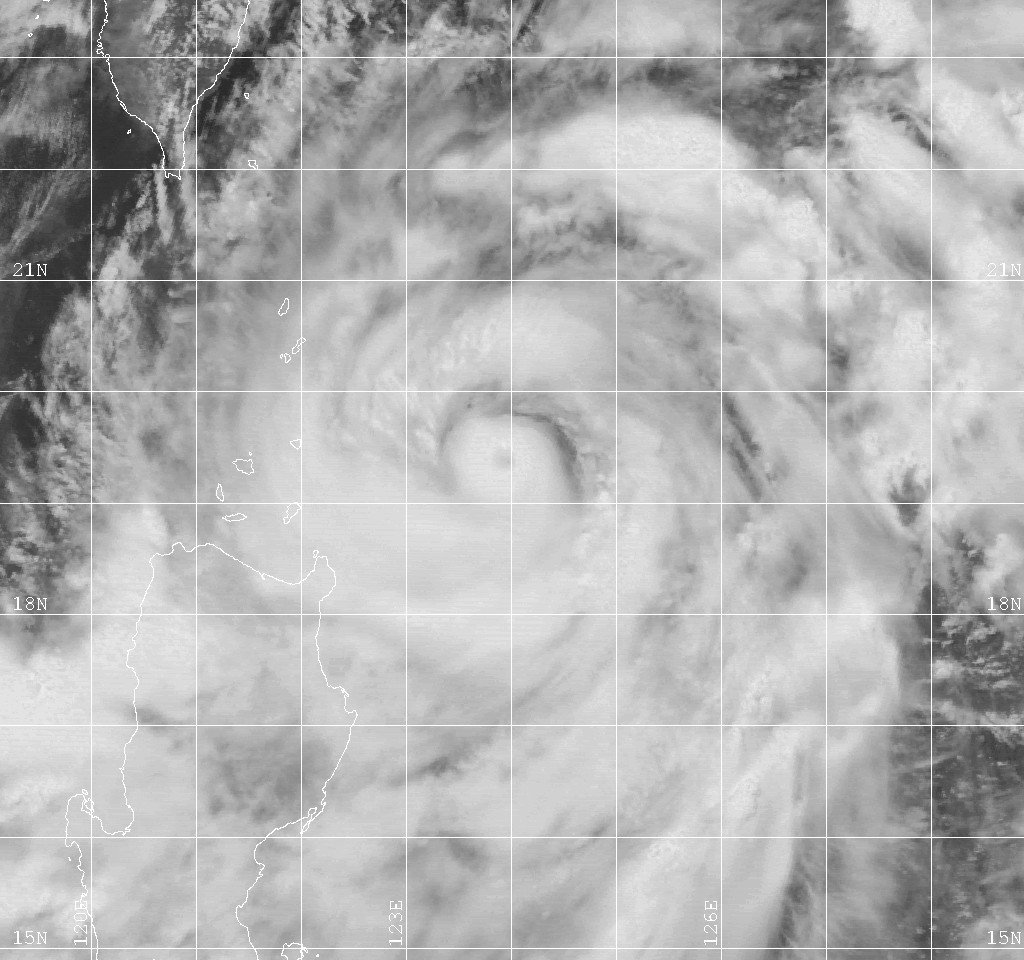 Visible image from GMS-5 of Typhoon Maggie on 1999-06-05, when it was to the northeast of Luzon. At the time, Maggie was at its peak with 105 knot winds.